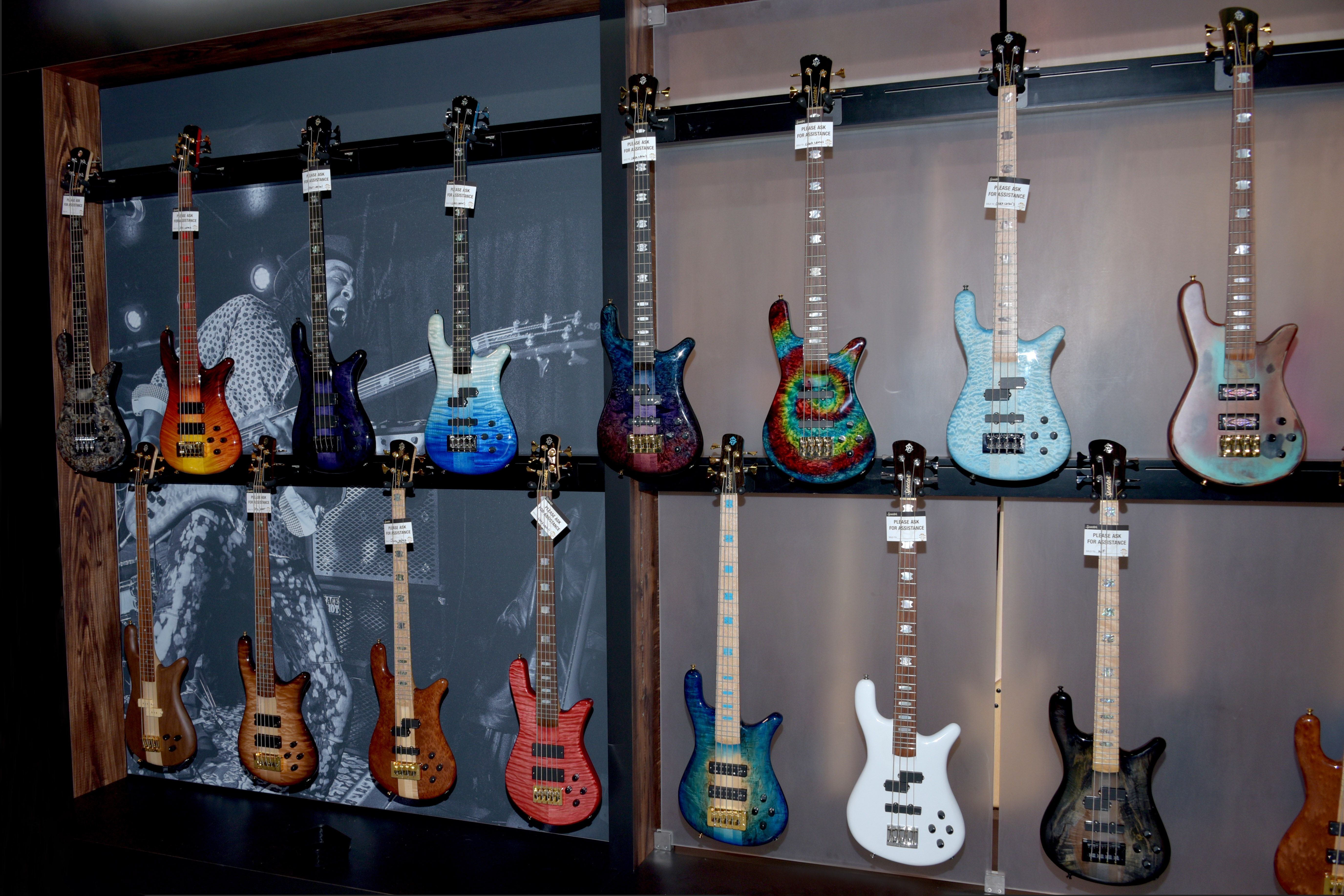 Spector Guitars at 'The NAMM Show' on January 17, 2020 in Anaheim, California - Photo by Glenn Francis of